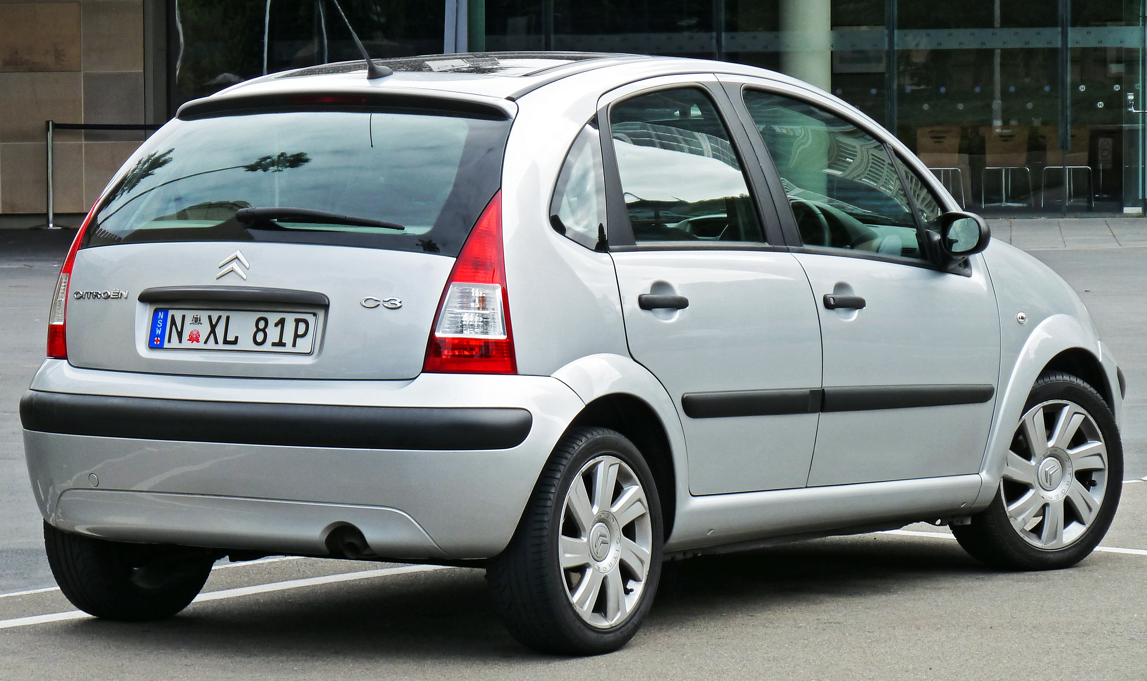 2006 Citroën C3 (MY06) Exclusive hatchback. Photographed on Conservatorium Road, Sydney, New South Wales, Australia.